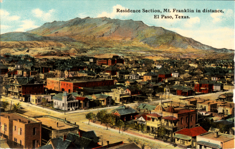 El Paso, Texas, Residential Area